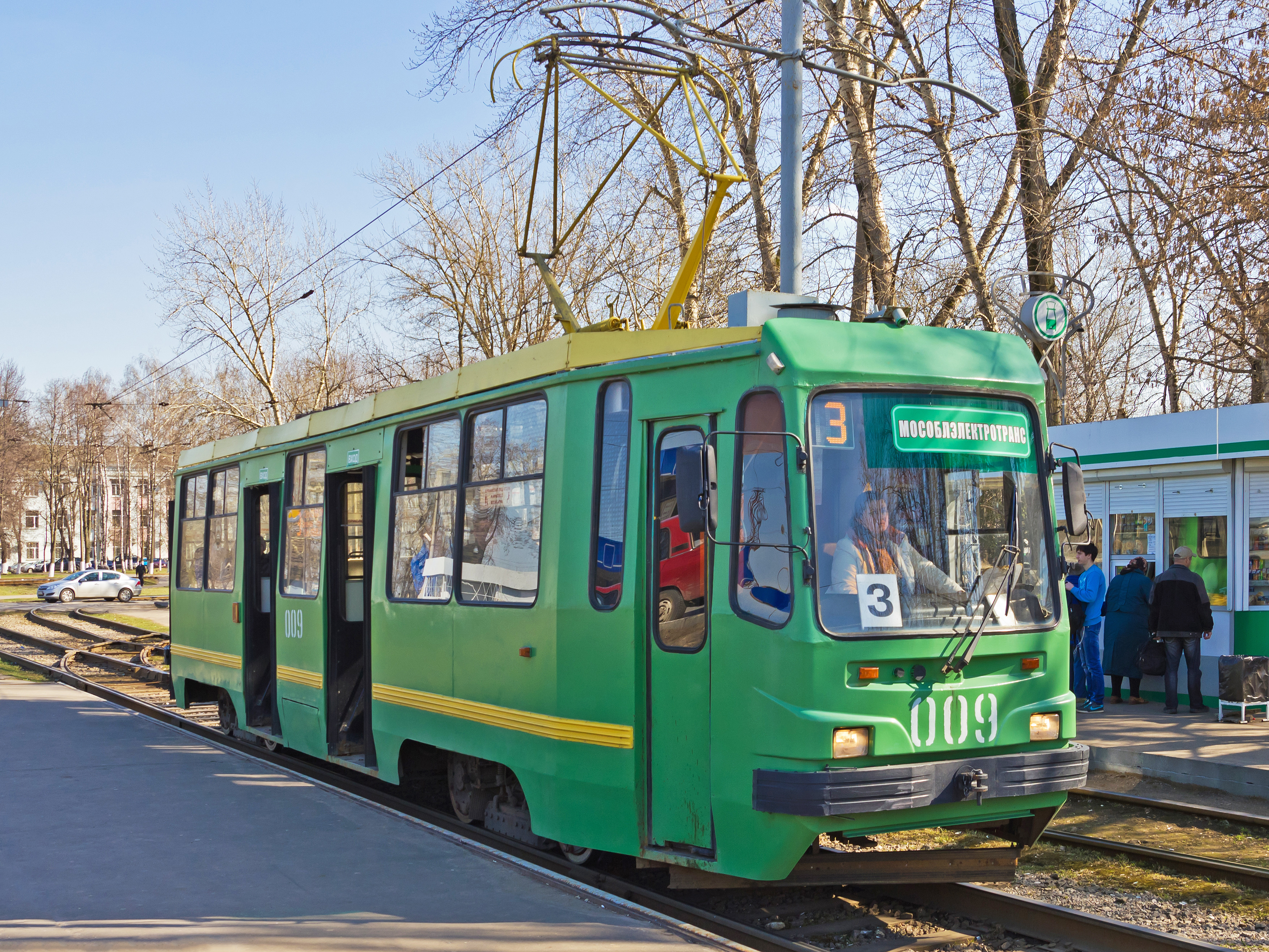 LM-99K tram in Kolomna, Moscow Oblast, Russia.